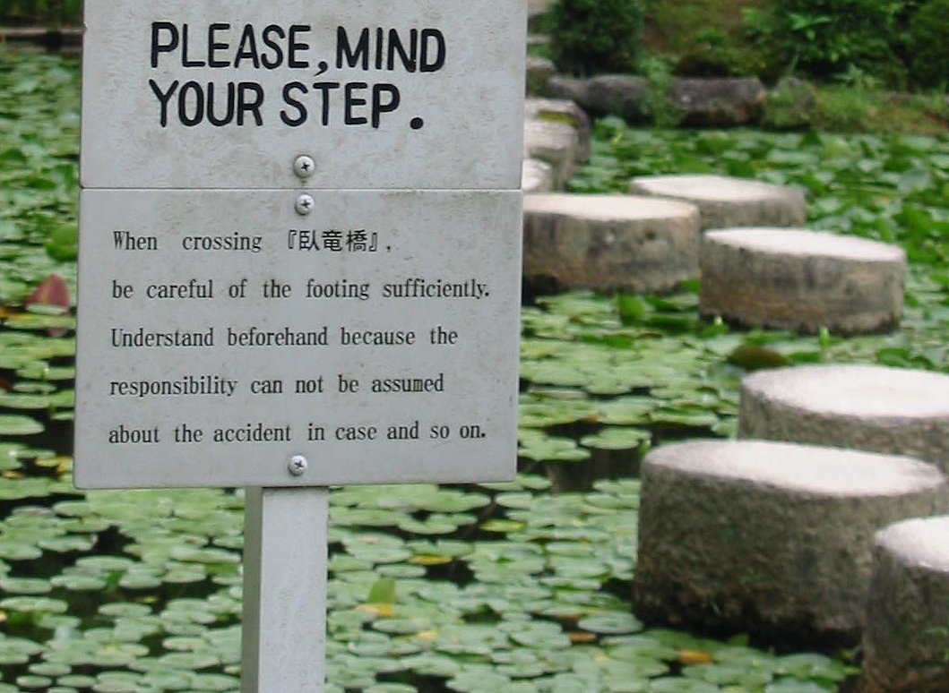 Engrish sign in Kyoto, Japan: "When crossing [Japanese name of the location] be careful of the footing sufficiently. Understand beforehand because the responsibility cannot be assumed about the accident in case and so on."